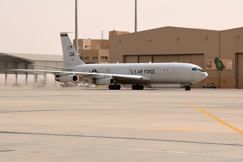 A U.S. Air Force E-8C Joint Surveillance Target Attack Radar System (JSTARS) taxies on the Prince Sultan Air Base, Kingdom of Saudi Arabia, March 8, 2020. The JSTARs forward deployed to PSAB from Al Udeid Air Base, Qatar, as part of an agile combat employment mission meant to test the squadron’s ability to conduct missions in the region from an austere location.